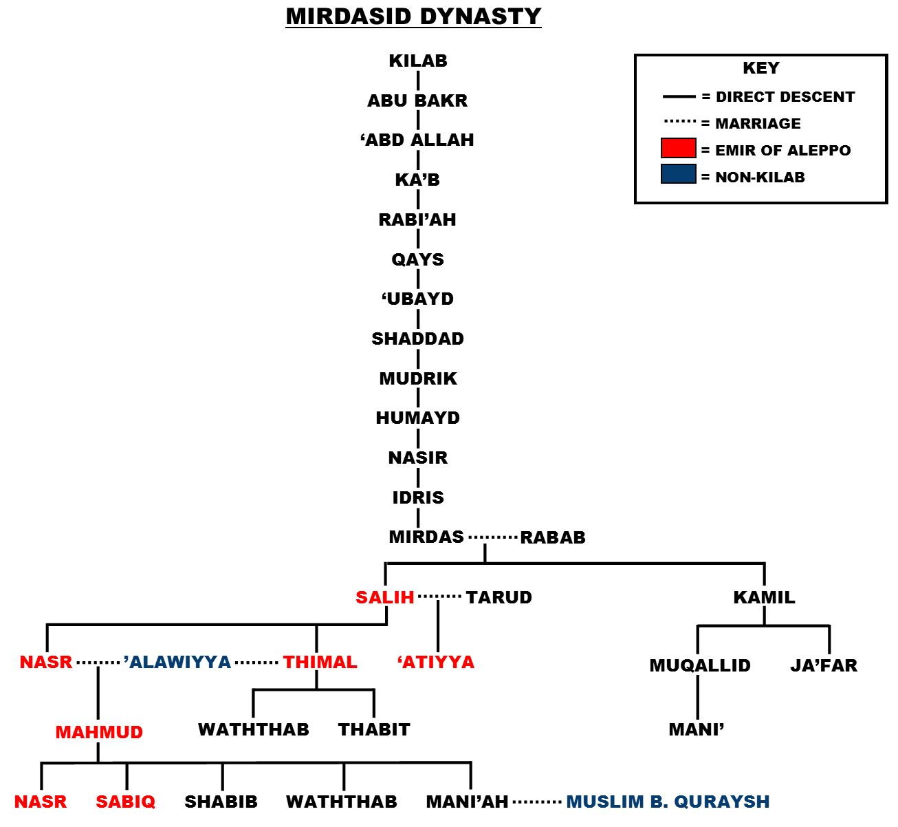 Genealogy of the Mirdasid dynasty. Based on information from: Bianquis, Thierry (1993). "Mirdas". The Encyclopedia of Islam, New Edition, Volume VII: Mif–Naz. Leiden and New York: BRILL. p. 119 Ibn Khallikan (1842). De Slane, Mac Guckin, ed. Ibn Khallikan's Biographical Dictionary, Volume 1. Paris: Oriental Translation Fund of Great Britain and Ireland. p. 631